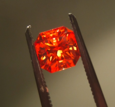 Padparadscha sapphire